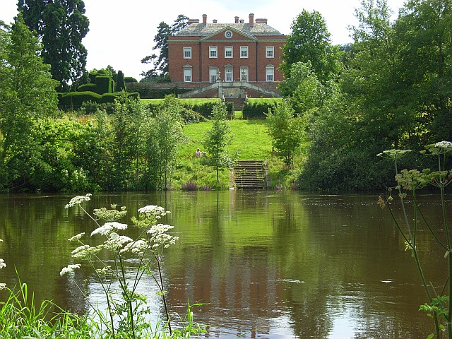 Culham Court On high ground above the River Thames which was in spate.